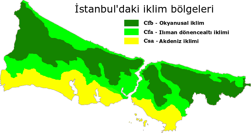 Istanbul climate zones according to the Köppen classification system.